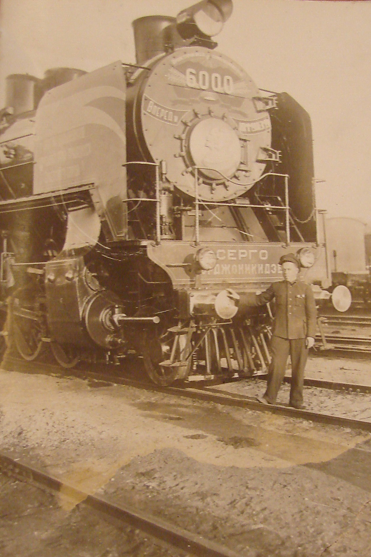 Russia, Vologda, Vologda Railway College Museum, Hero of Socialist Labor Bolonin Vasily Ivanovich near his locomotive